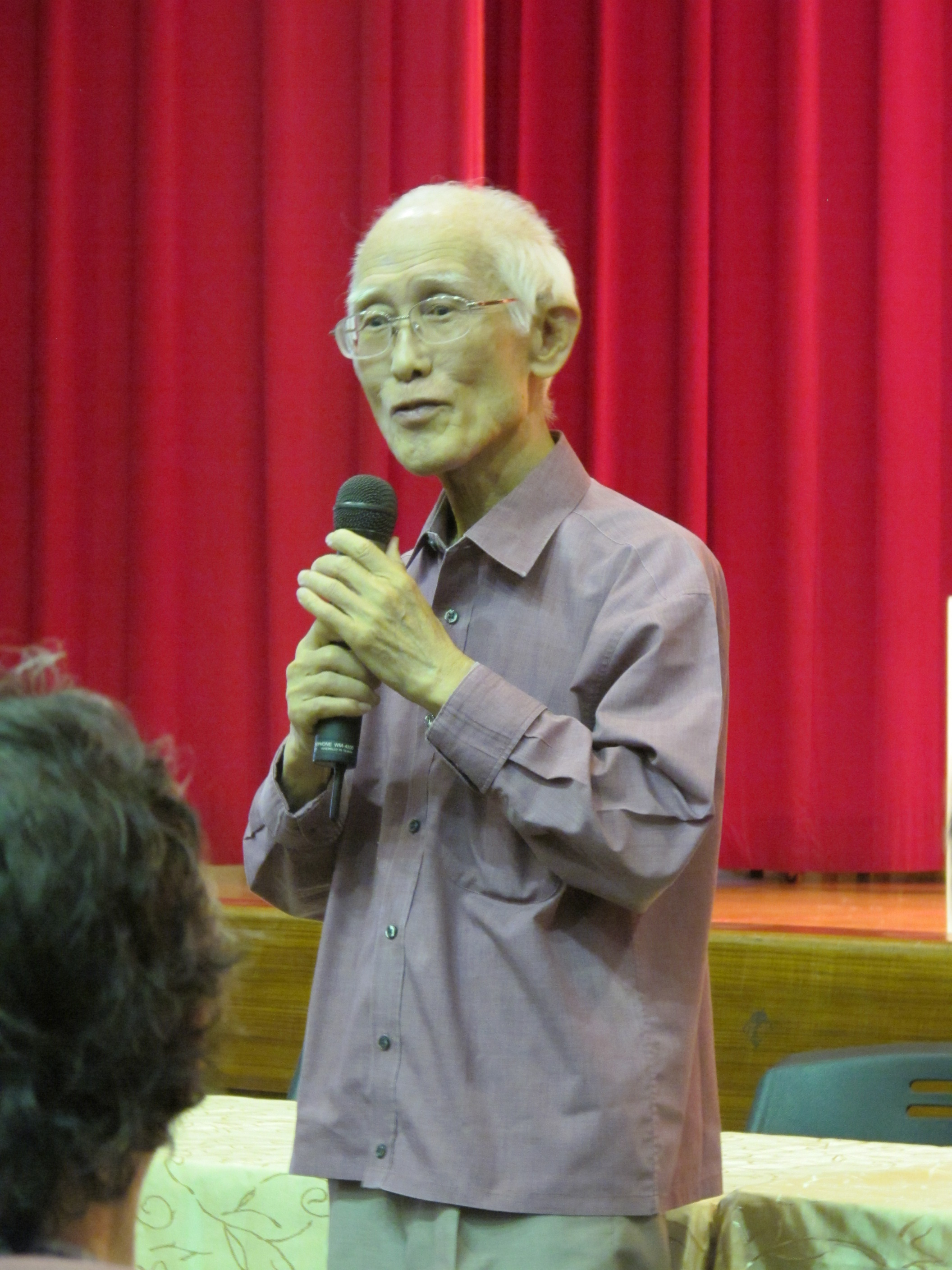 Yu Guangzhong, Taiwanese literary, poet. Picture taken at National Yilan Senior High School.